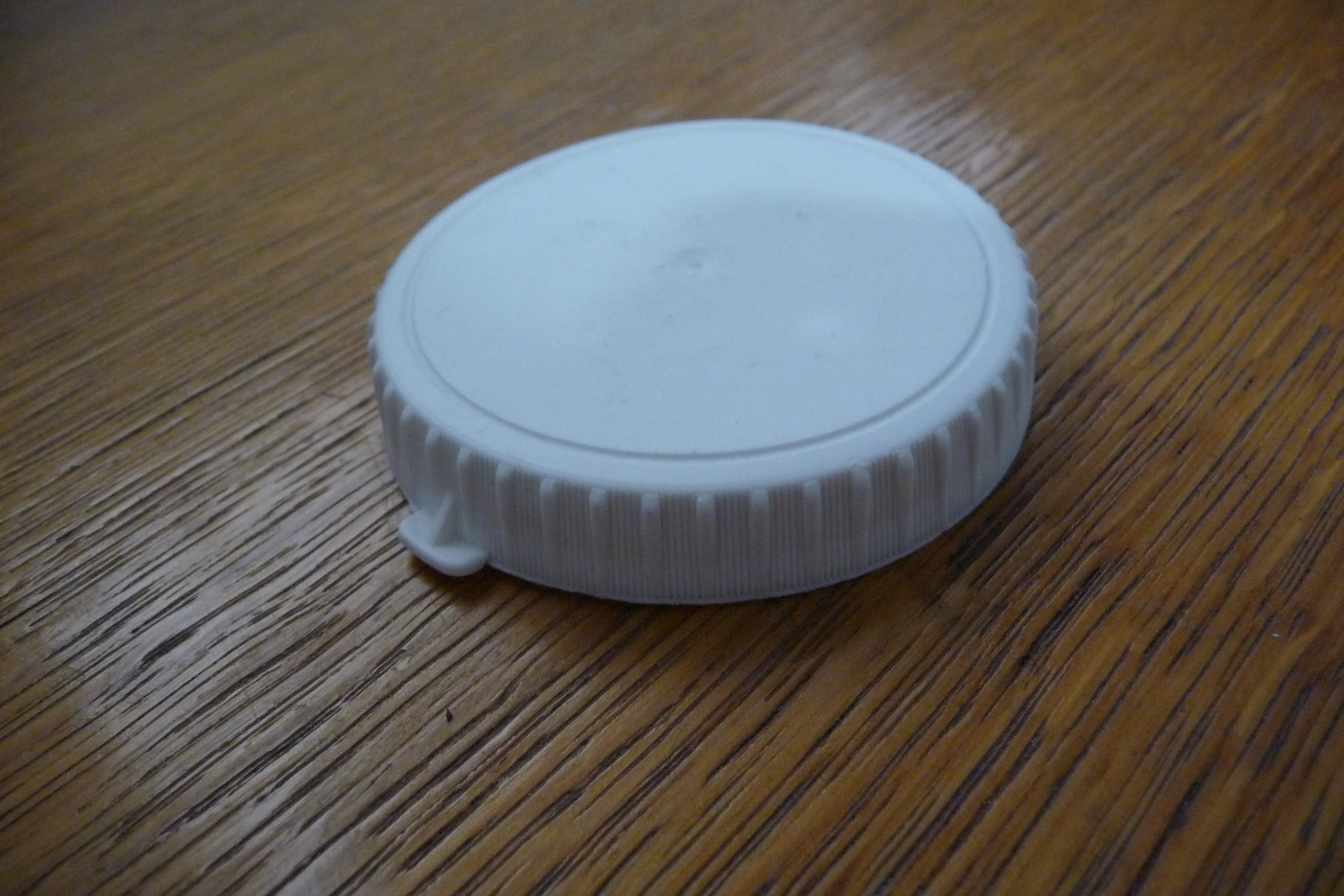 White plastic stopper